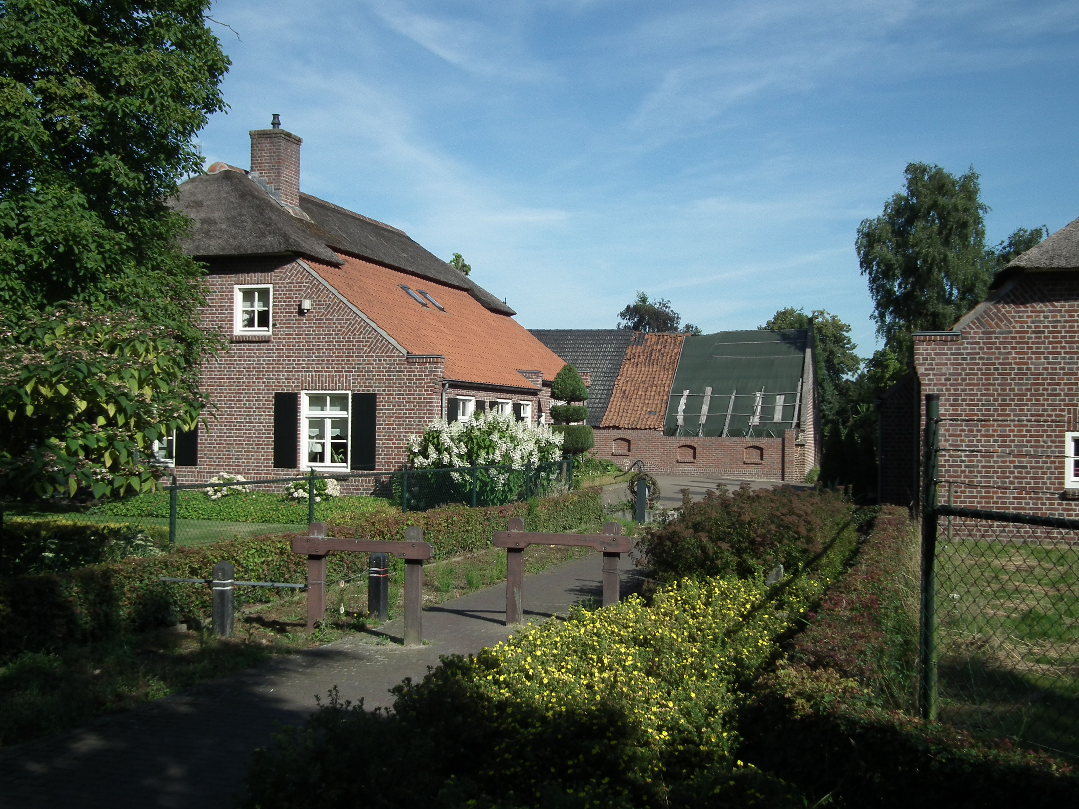 Farmhouse Beej Heindriks in the hamlet Boeket near the village Nederweert.